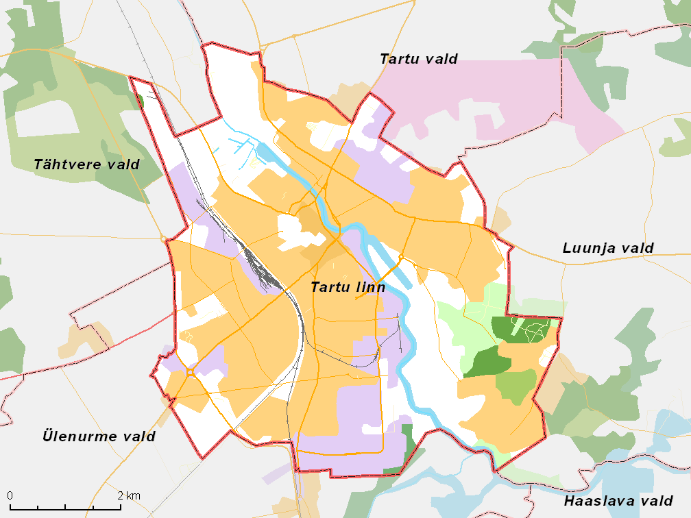 Map of municipality in Estonia